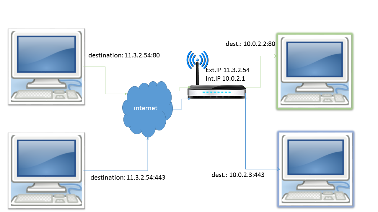 principle of port forwarding, using a NAT router